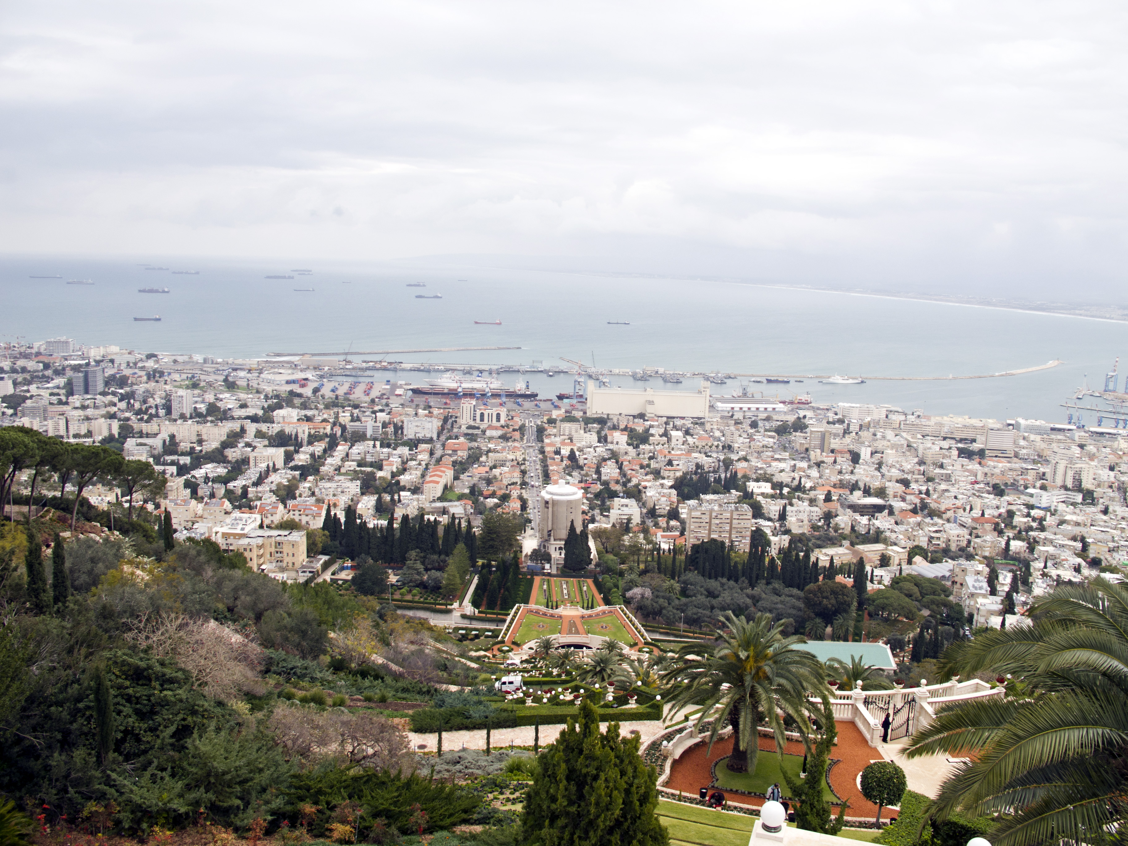 Haifa, Israel The view from the top of the Bahá'í gardens (a UNESCO World Heritage Site) around the Shrine of the Báb on Mount Carmel in Haifa. On Google Earth: top of the Bahá'í gardens 32°48'41.04"N, 34°59'6.45"E Israel. 20110221 Israel 0057 Haifa (5539841011).jpg